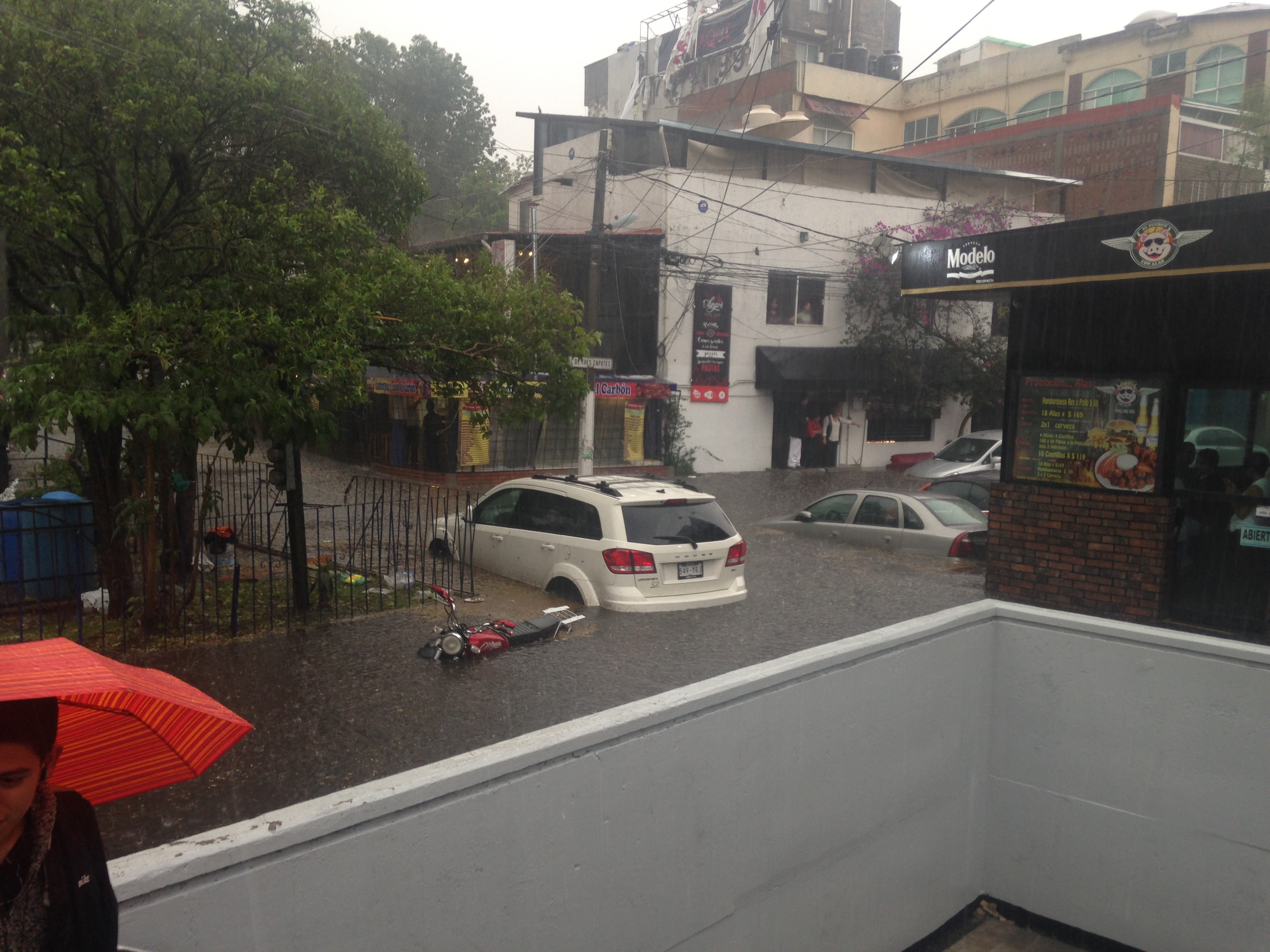 Cars covered by water, rainfall flood outside Mexico City Metro Copilco Station, Mexico City